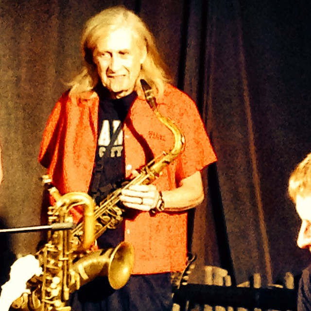 Steve Mackay in 2014